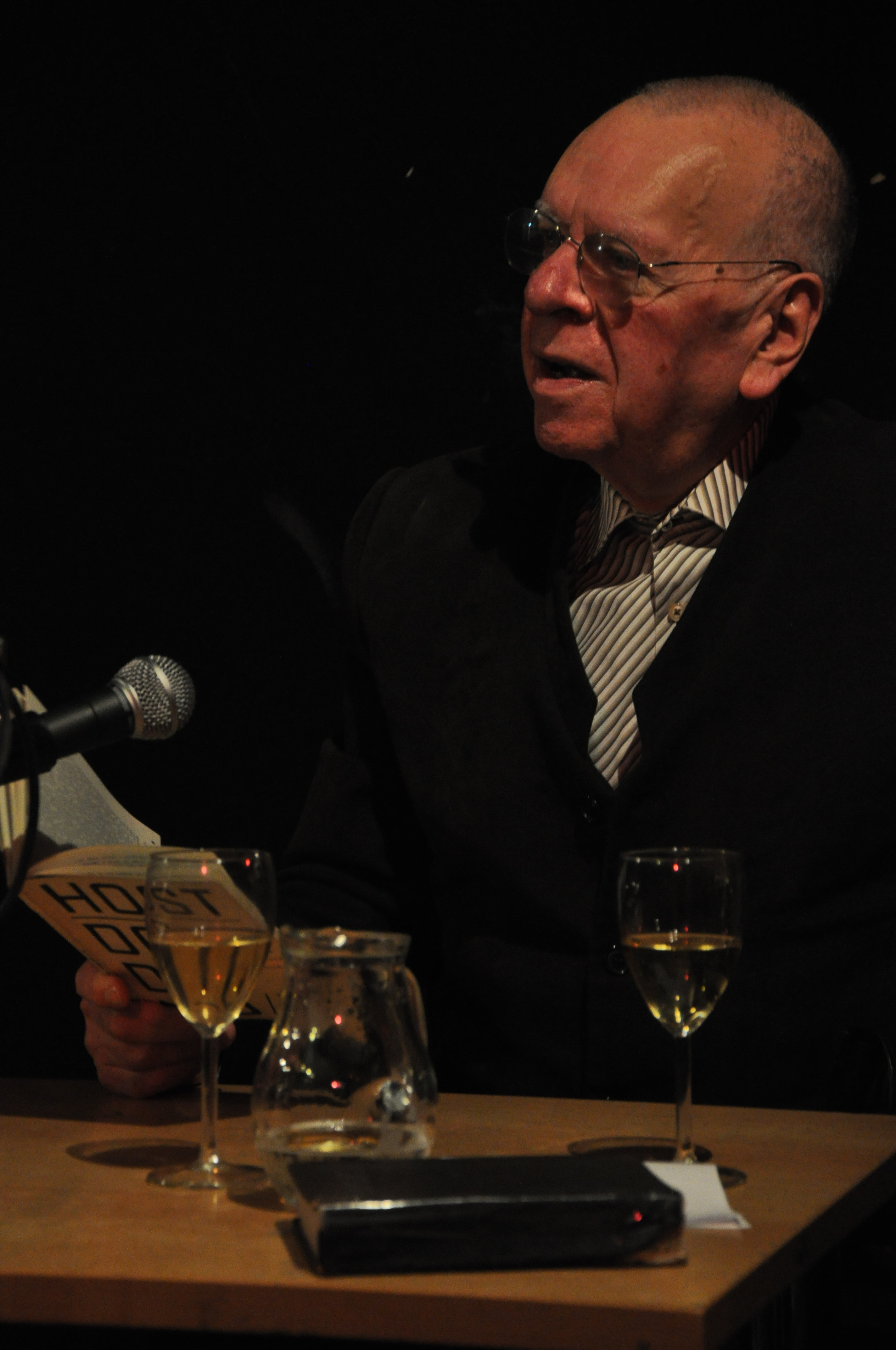 Milan Uhde, czech playwright and politician. Brno, Desert club